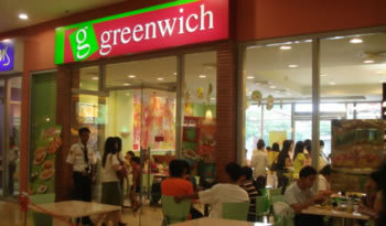 Typical Design of Greenwhich Store in the Philippines. Actual Store in South Sea Mall, Philippines. Taken with Nokia 6300 Cellphone